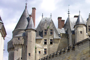 work camps for youth with the Club du Vieux Manoir